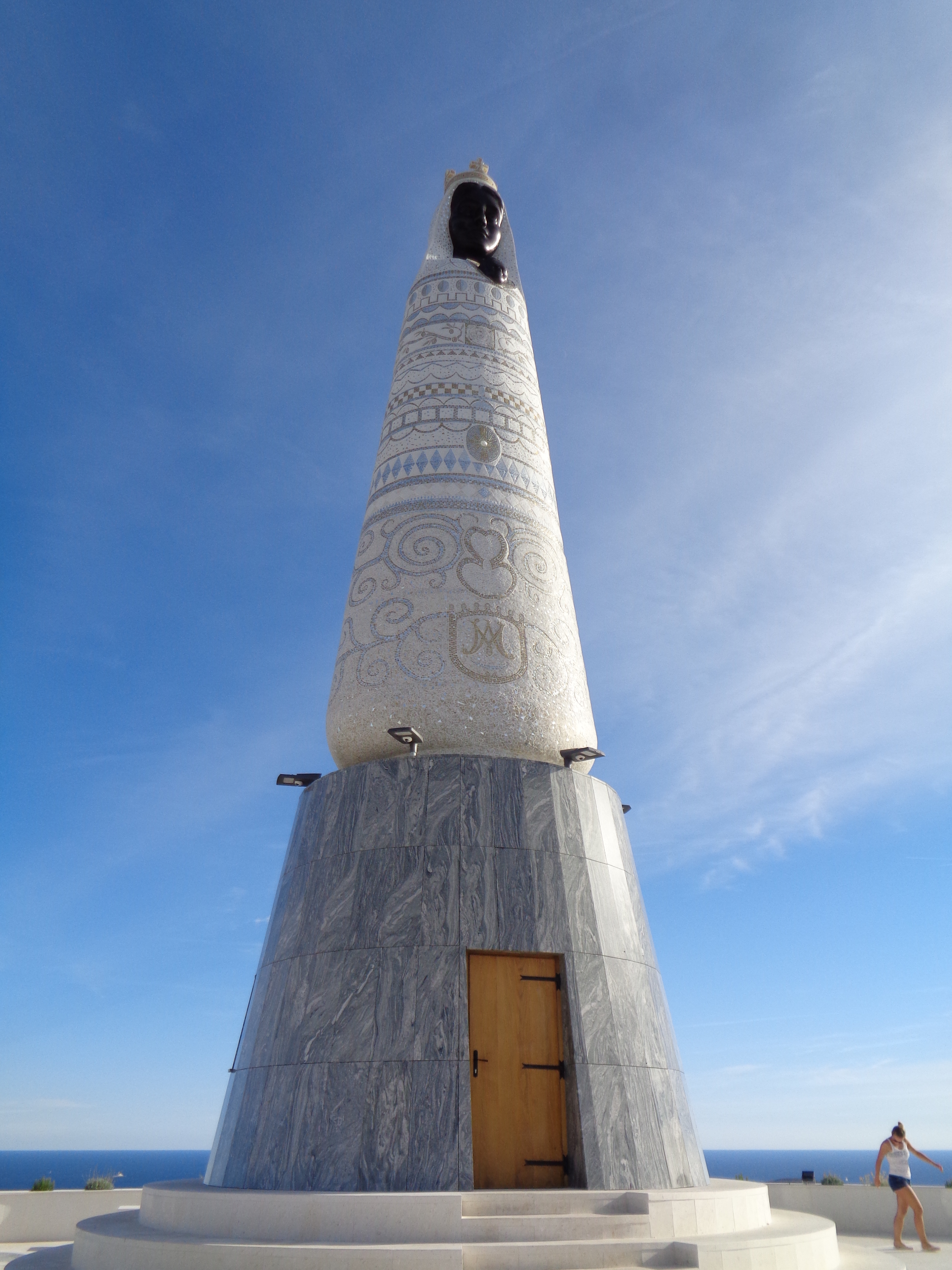 Our Lady of Loreto monument at Primošten, Šibenik-Knin County, Croatia - north view